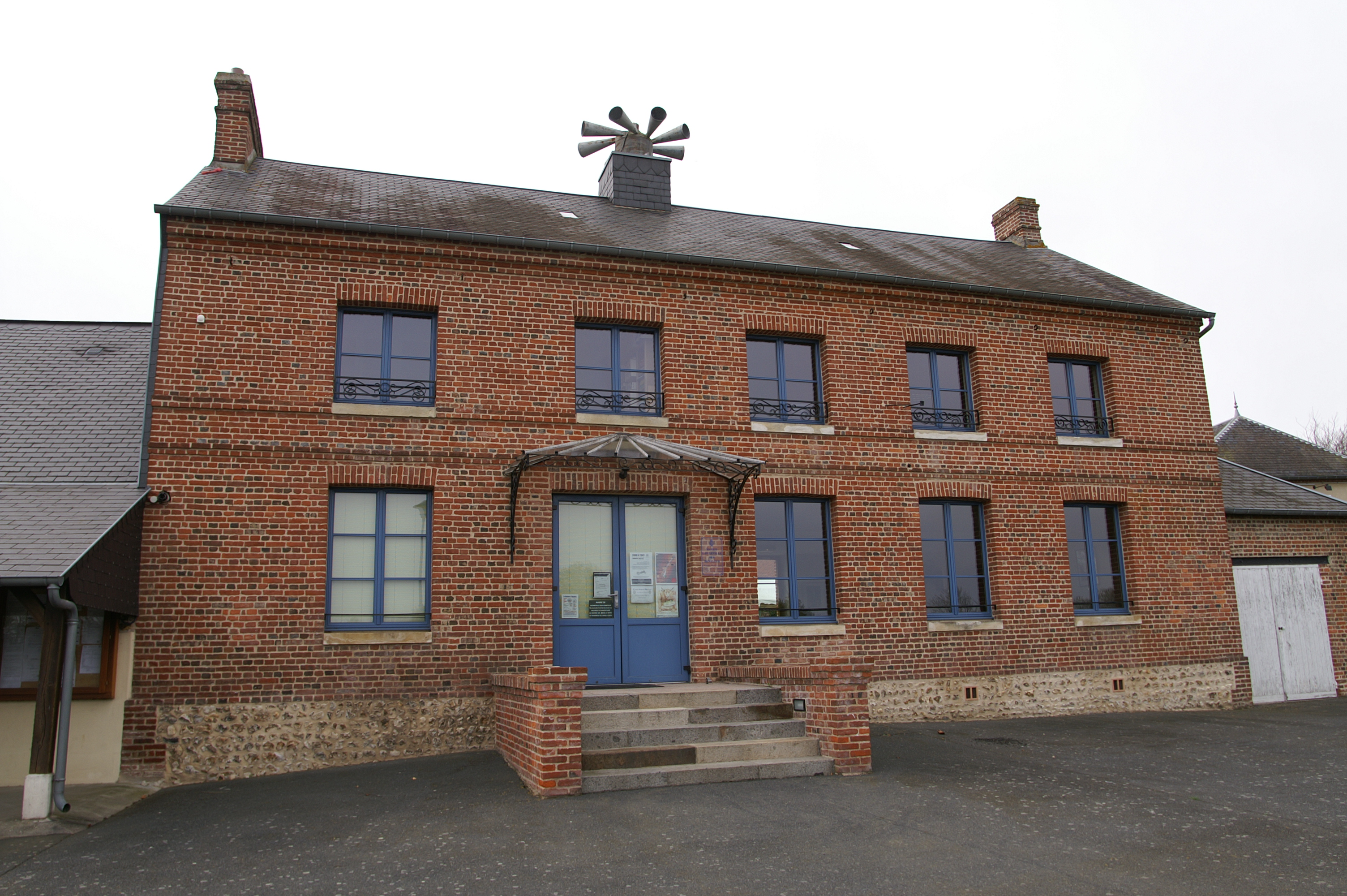 Town hall of Gonneville-sur-Honfleur.